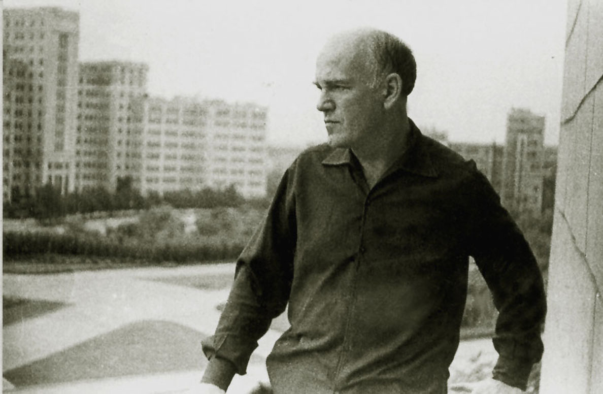 Paninist Svyatoslav Richter on the balcony of the Kharkiv hotel admires the Dzerzhinsky Square (now Svobody Square) in Kharkov, where he arrived on the eve of a solo performance at the Ukraine Concert Hall. In the background on the right is Gosprom(State Industry)-building, on the left Kharkov University.